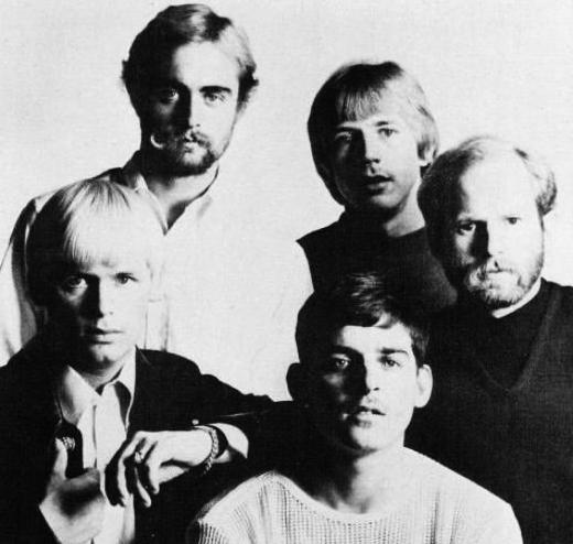 Trade ad for Harpers Bizarre's single "Chattanooga Choo Choo". To better adapt it to his respective Wikipedia article, the ad was cropped and cleaned in a graphics editing program. The original can be viewed at the source below.